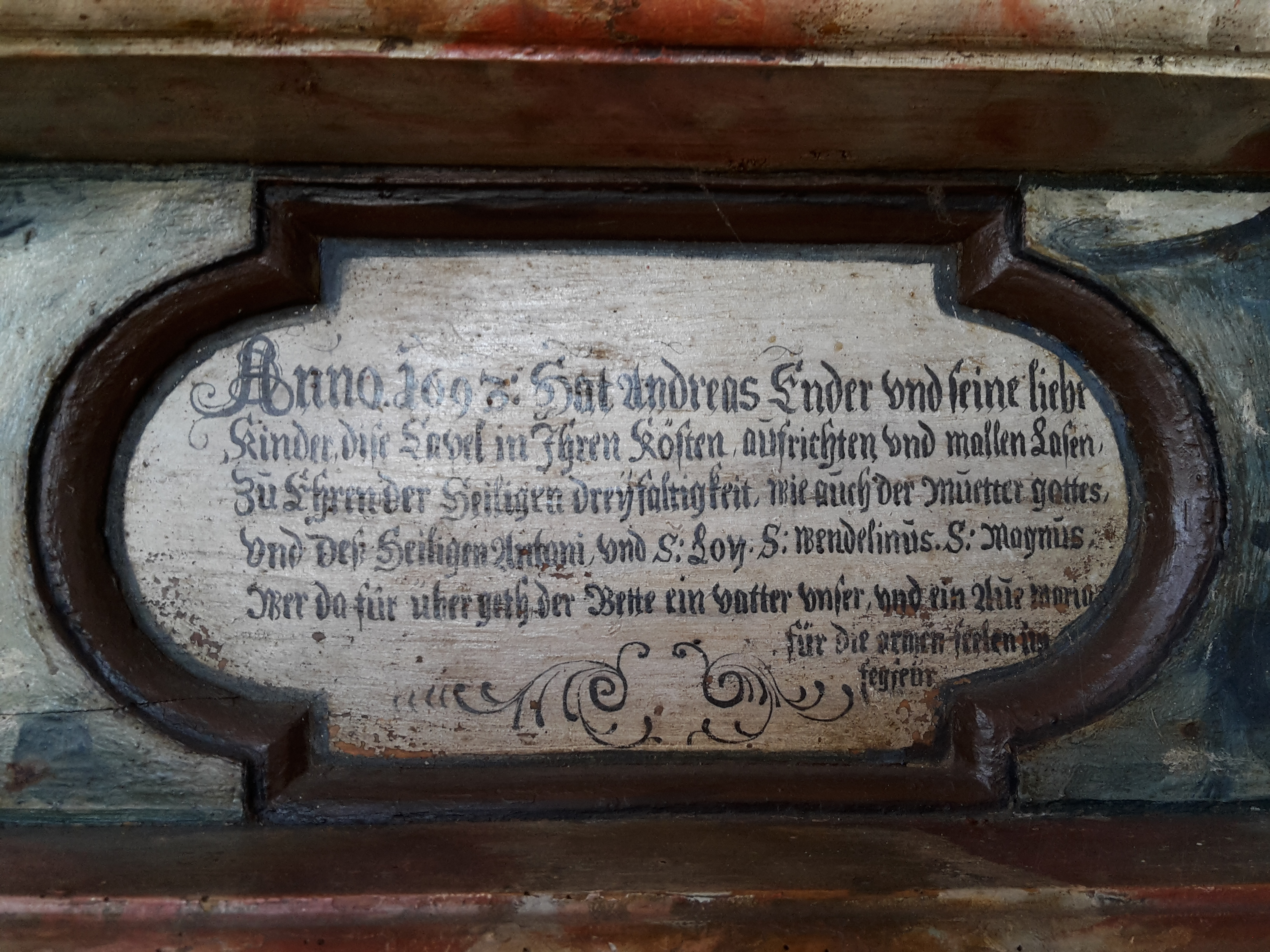 Chapel "Rheinmahd" (from Rhine) in Koblach, Vorarlberg, Austria. Inscription on the altar (1693).